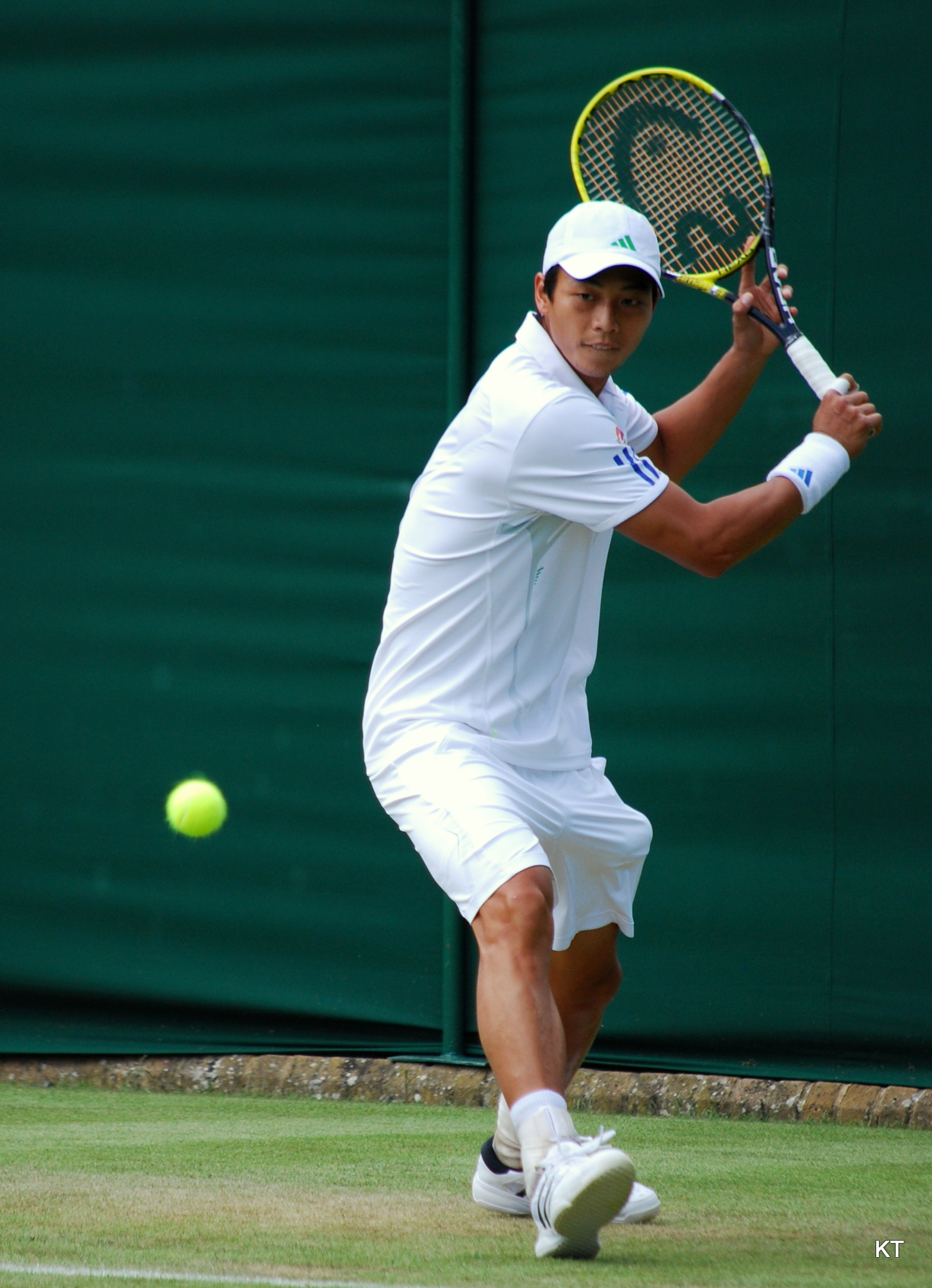 Yen-Hsun Lu during his 1st round match with Tommy Robredo. Lu won 6-4, 6-4, 6-1. Day 2 of Wimbledon 2011.